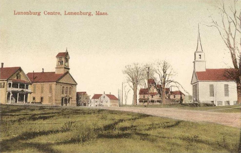 View of Lunenburg Center, Lunenburg, Massachusetts